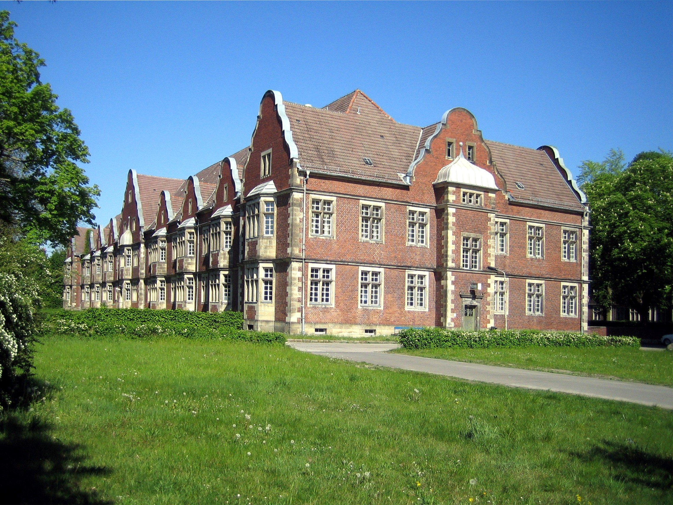 Hospitals in Berlin-Buch (Germany), area II. Erected 1900-1908, architect: Ludwig Hoffmann. Facades.